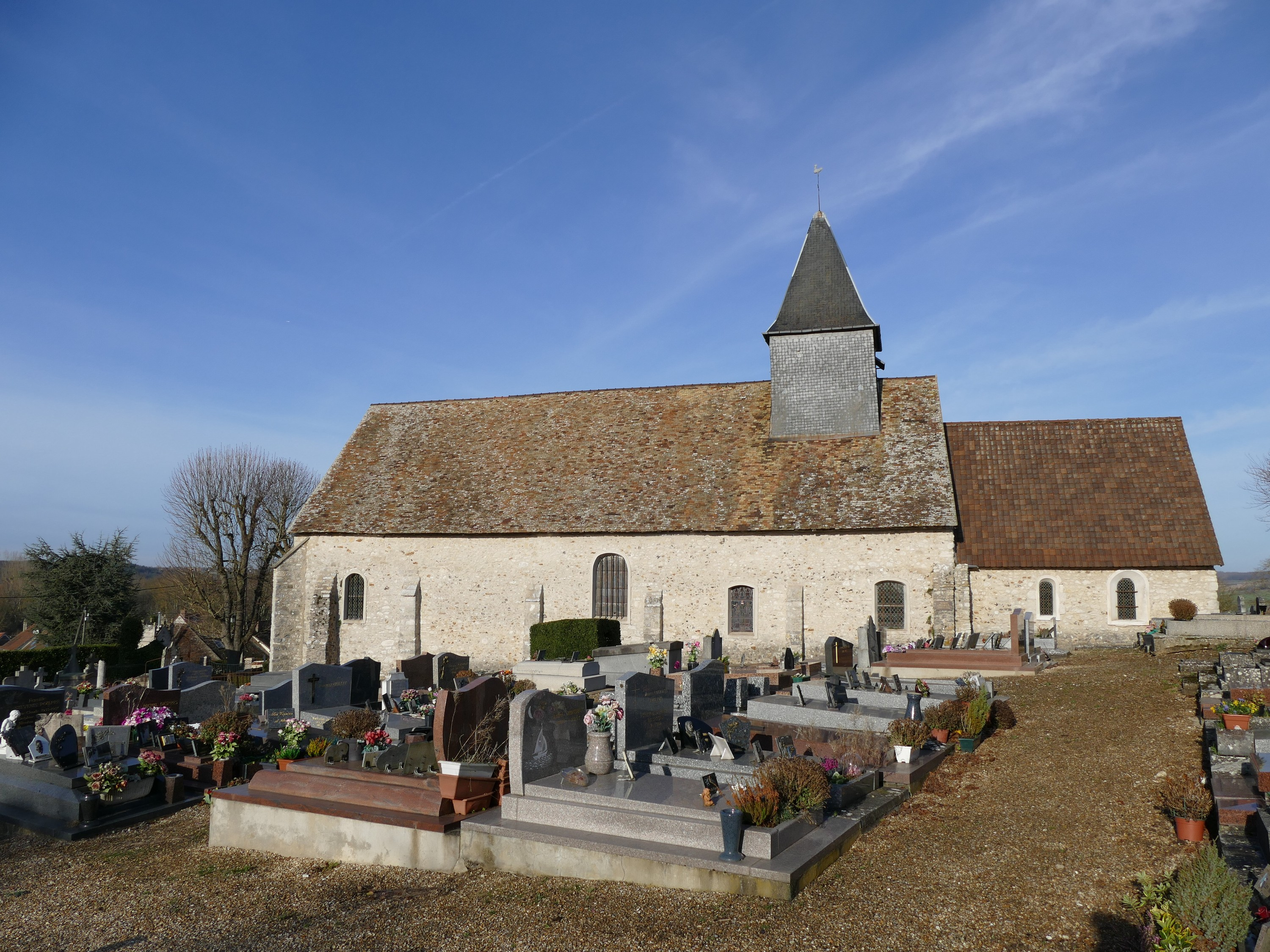 Saint-Peter's church in Oulins (Eure-et-Loir, Centre, France).